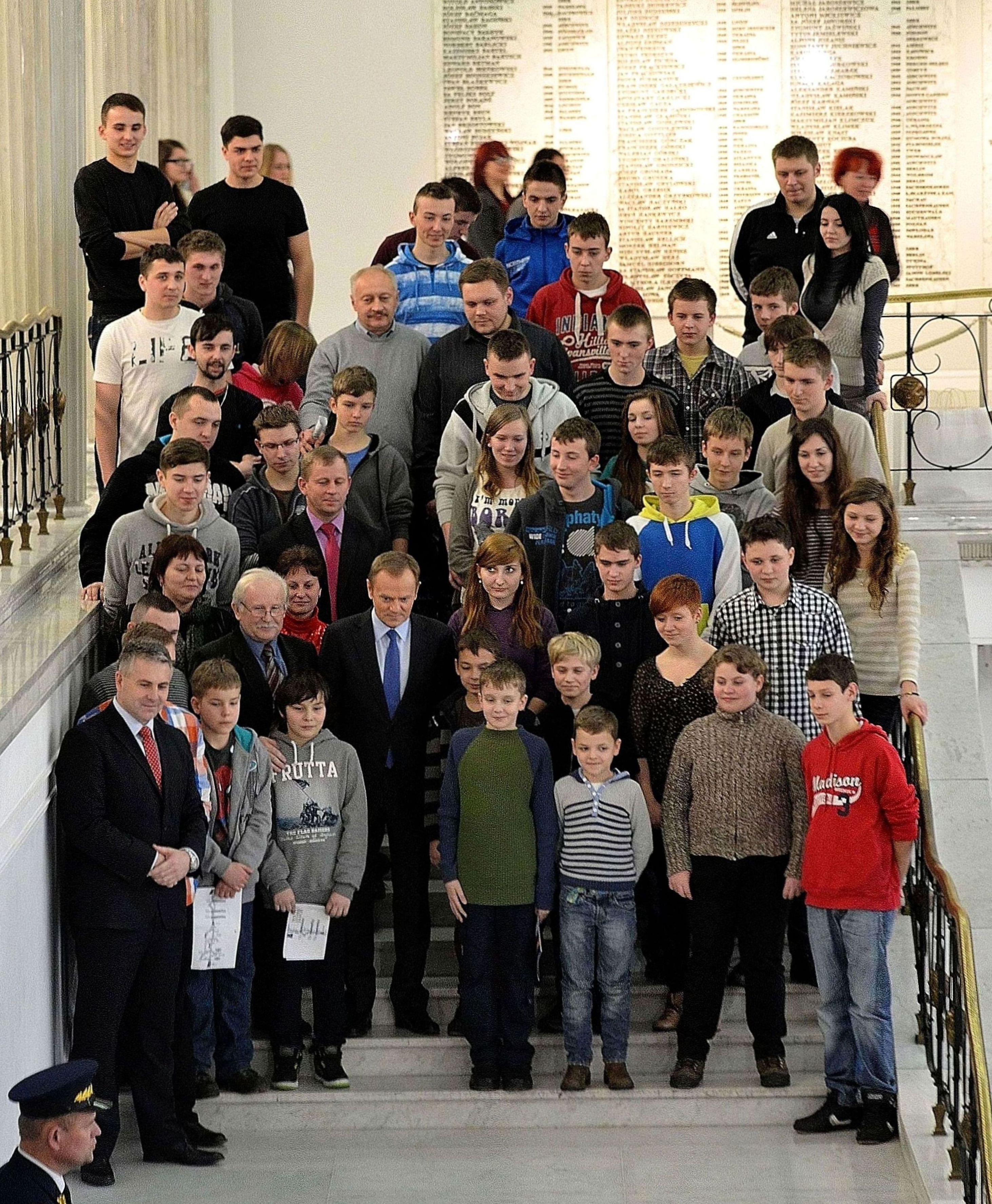 Polish PM Donald Tusk with a group of young people visiting the Sejm